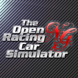 Pylon texture showing the former Torcs-NG logo